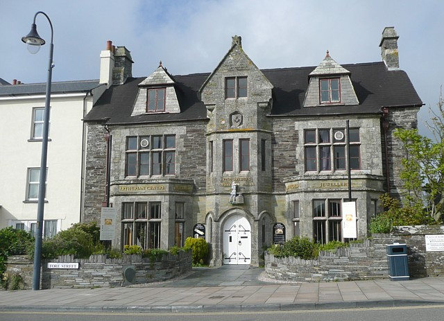 The Arthurian Centre, Tintagel The emblem above the first-floor windows in the centre shows that this is a Masonic hall.